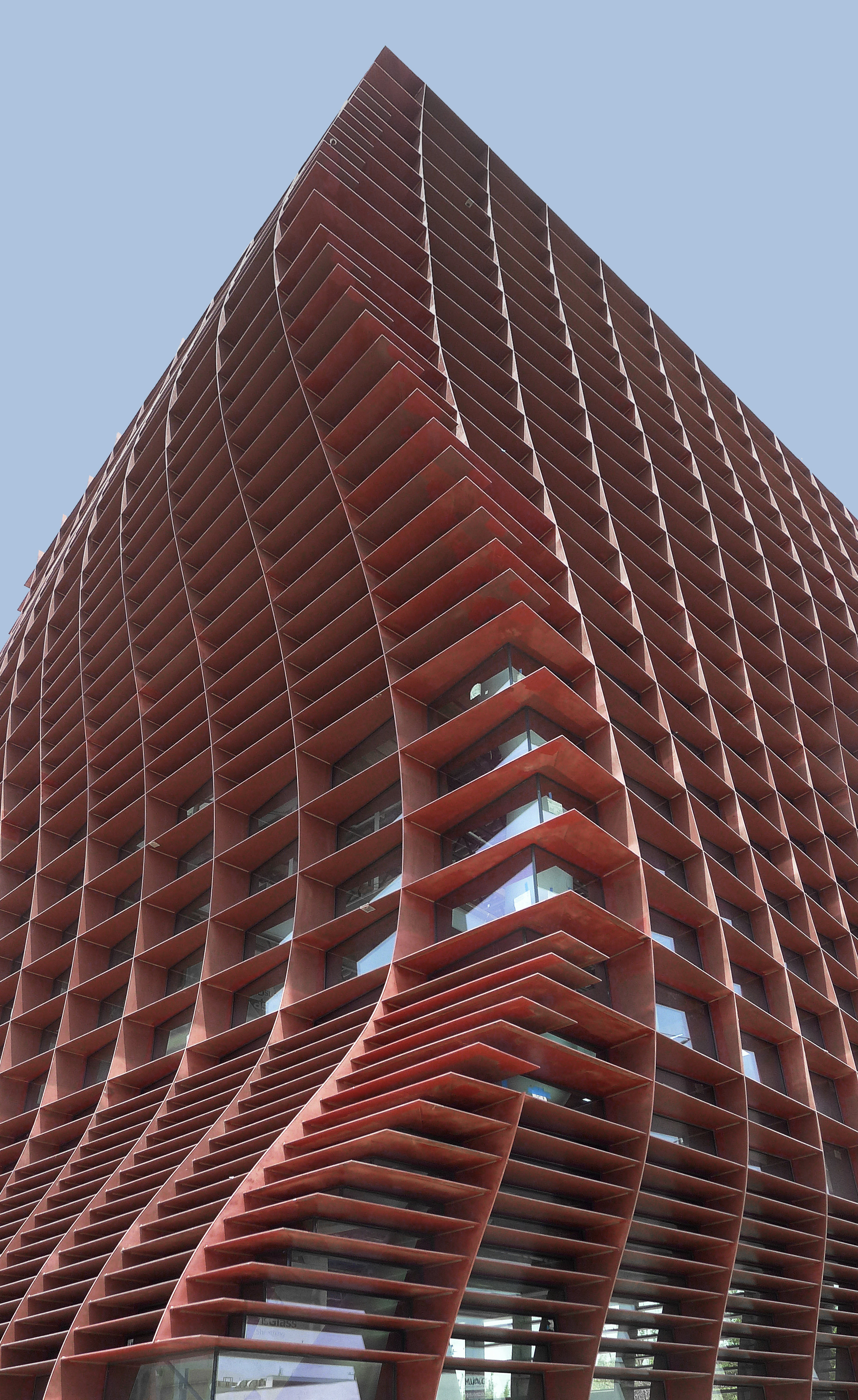 The Waffle, Culver City, CA